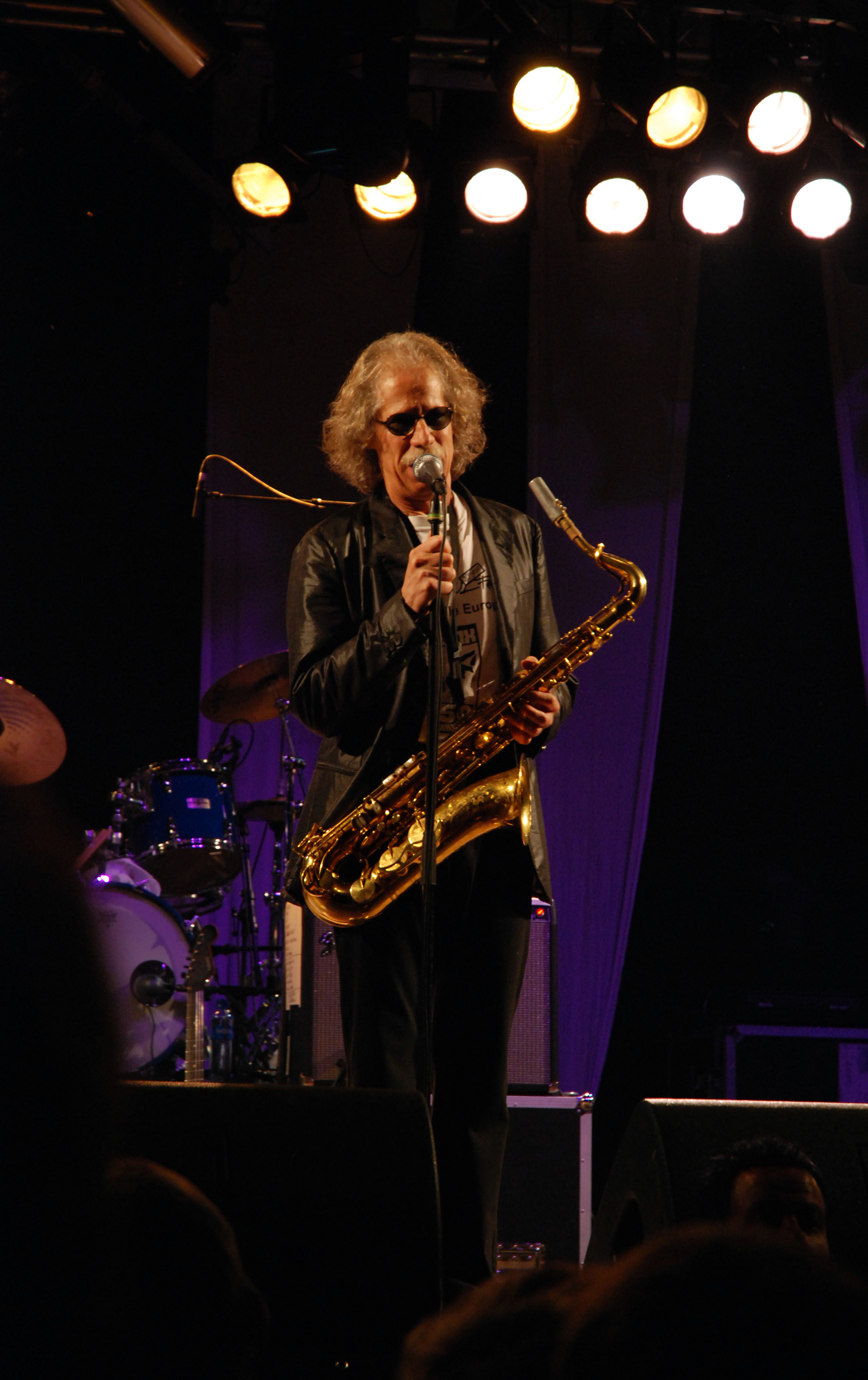 "Blue Lou" Marini of The Blues Brothers band at Hamar Music Festival 2007, in Hamar, Hedmark, Norway. He is holding a King "Super 20" tenor saxophone.